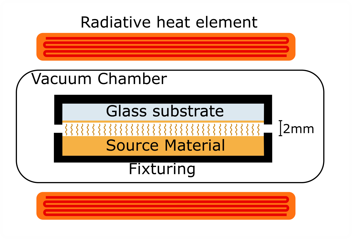 An example of a close-space sublimation process. The source material is heated, causing it to sublimate. The vapors travel a short distance, condensing on the colder (but still heated) substrate. Heating is typically done by radiative elements heating through a quartz wall of the vacuum chamber onto a carbon heating pad.